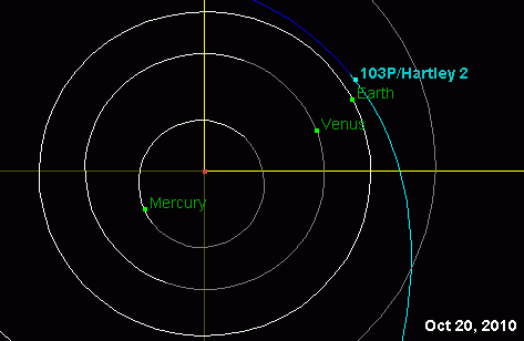 The close approach of 103P/Hartley to the Earth on 2010-Oct-20. The comet will come to perihelion (closest approach to the Sun) just 8 days later on 2010-Oct-28.